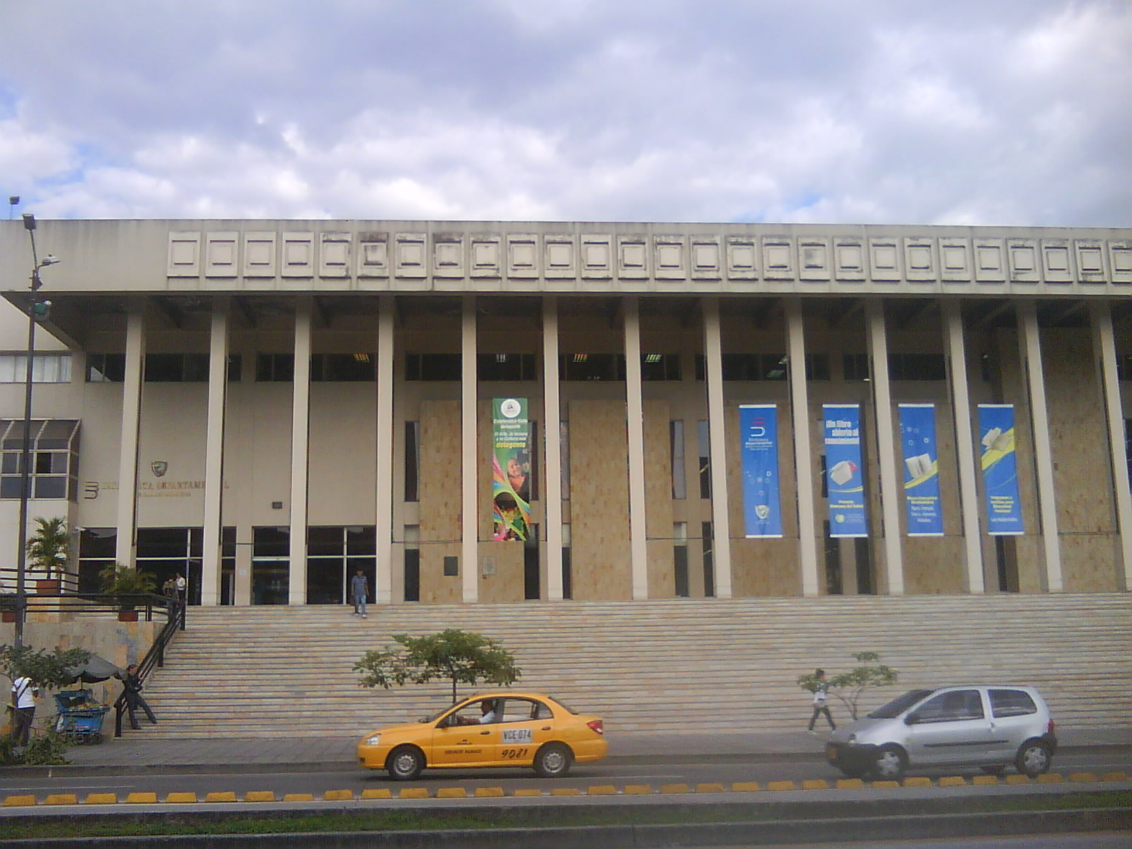 Photo of the "Biblioteca Departamental Jorge Garcés Borrero" from the front